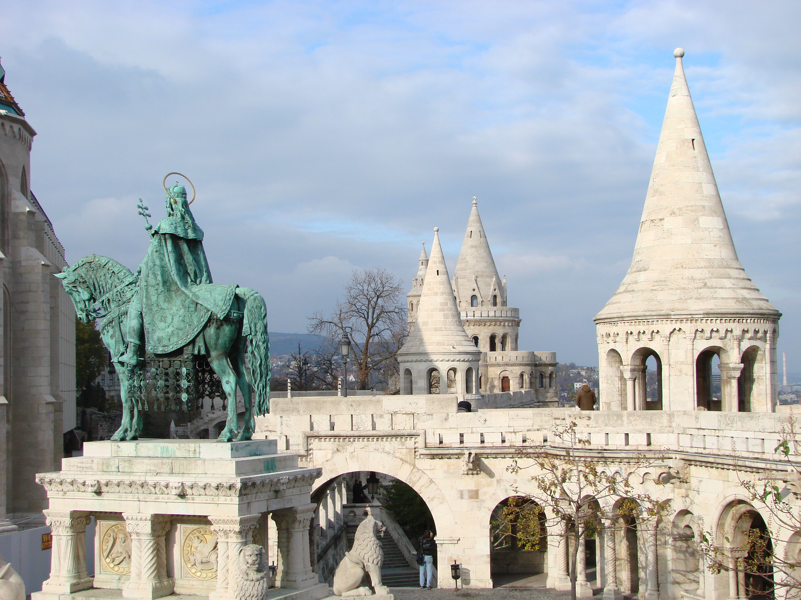 Battlements and Turrets - Castle Hill - Buda Side - Budapest - Hungary